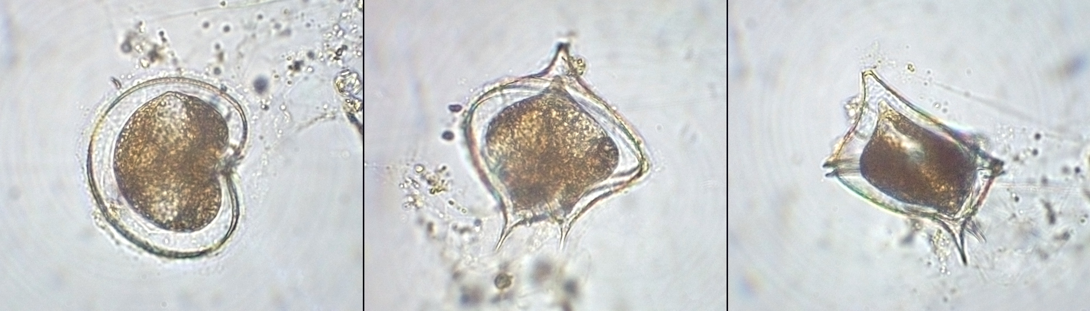 North-West Black Sea, at a depth of 10.0 metres